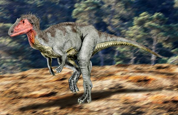 Neovenator